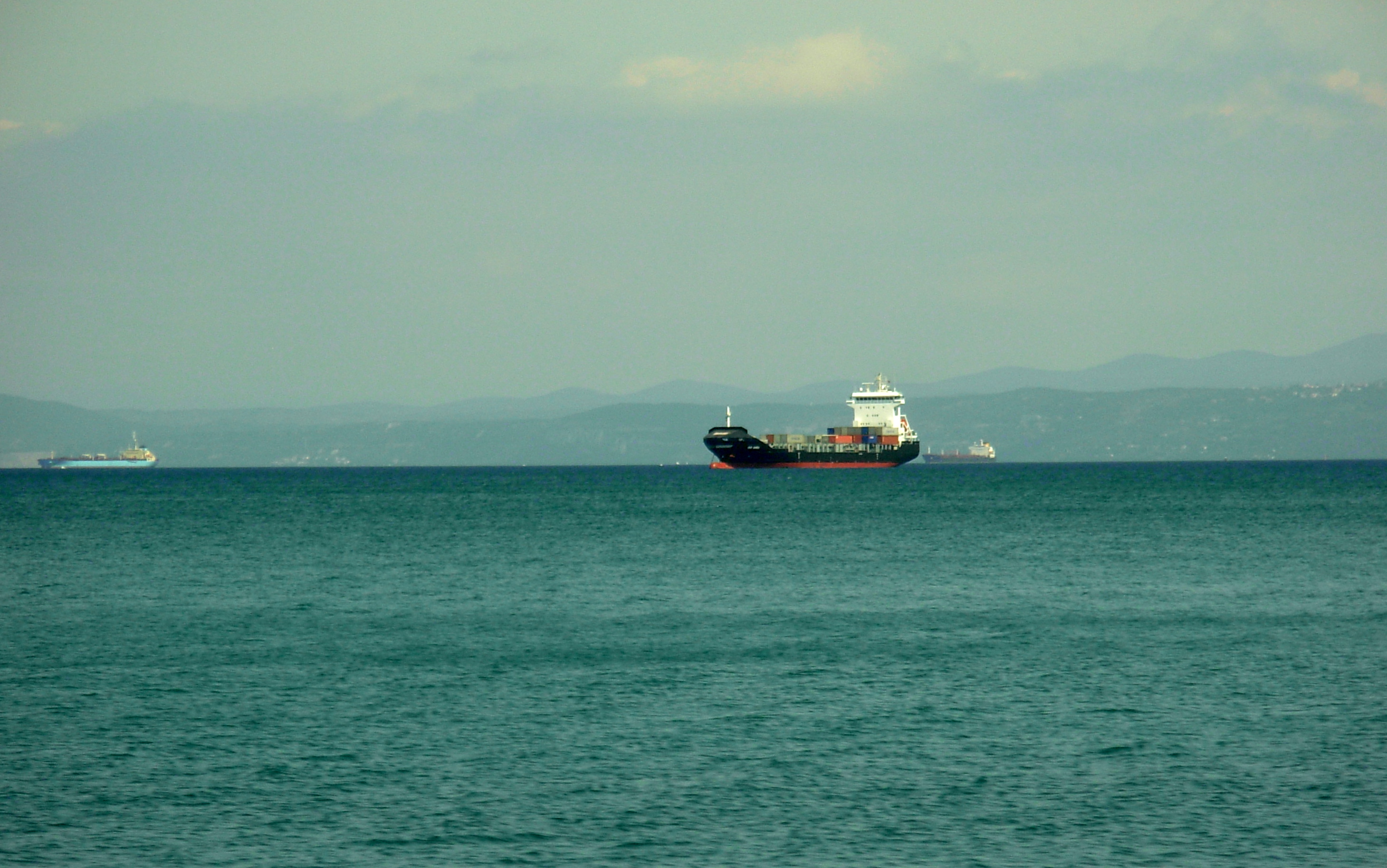 Adriatic sea in Croatia, Istria